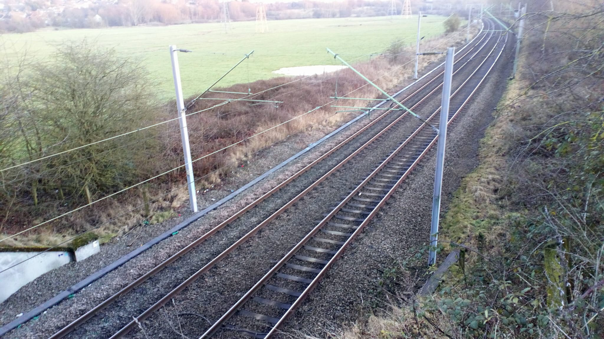 My own.